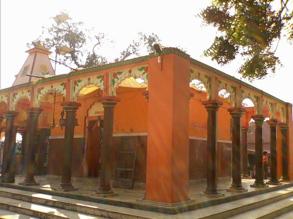 JHarkhand main shiva temple